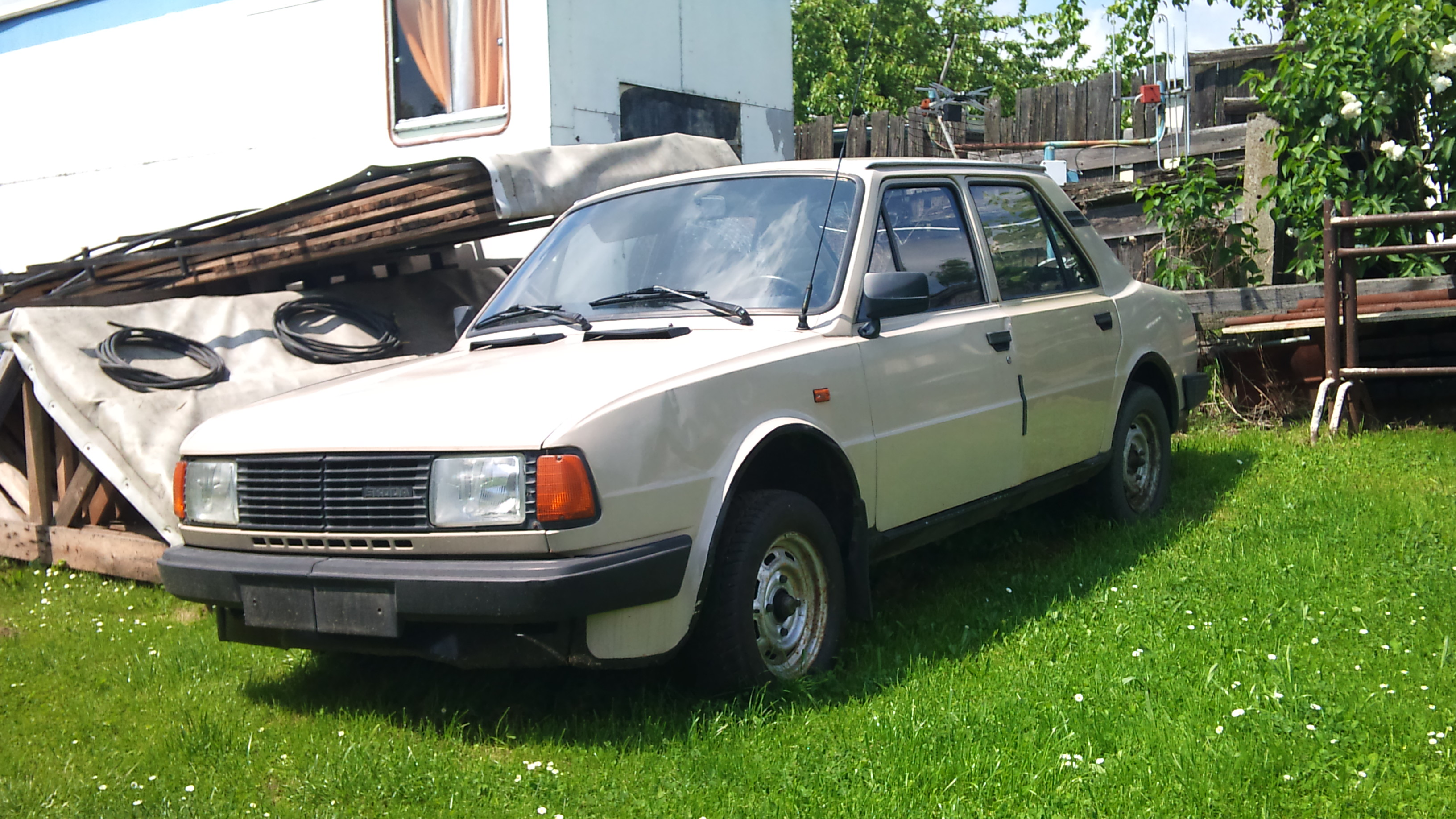 Shows Skoda 120 L (?)